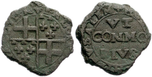 Crusaders, Knights of Malta. Alof de Wignacourt. 1601-1622. Æ Grano (18mm, 3.05 g, 1h). Coat-of-arms VT COMMOD/IVS in three lines across field. Cf. Restelli 42; KM 9. VF, green and brown patina.